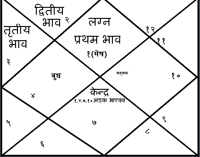 Image illustrating oriental astrological kundli of an imaginary person